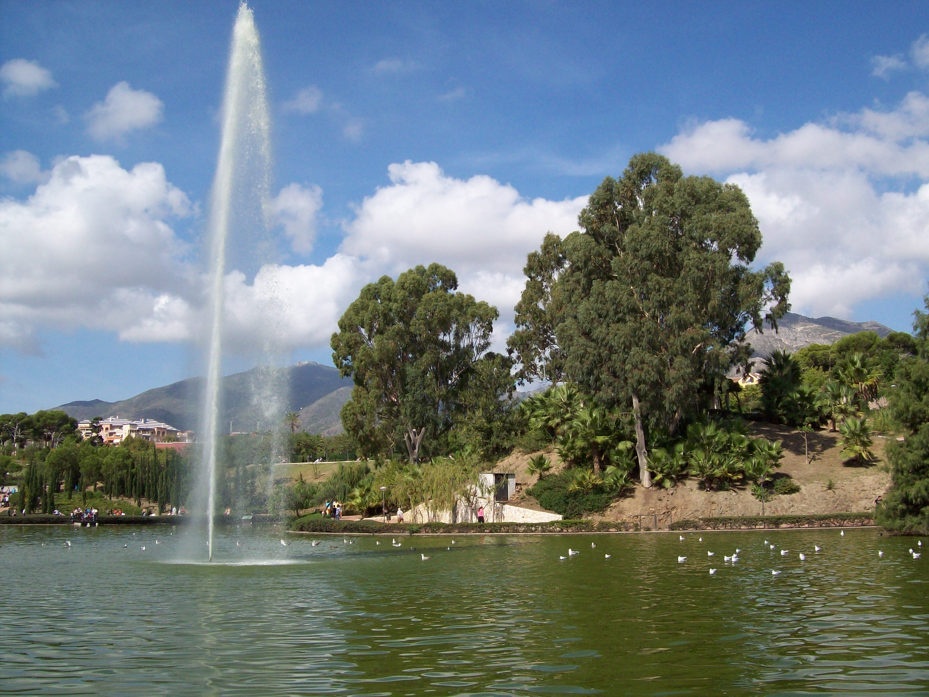 La Paloma Park, Benalmádena, Málaga, Spain